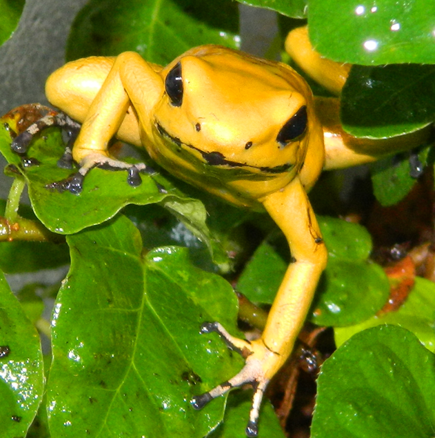 A terribilis clambering among some leaves and smiling at the camera.